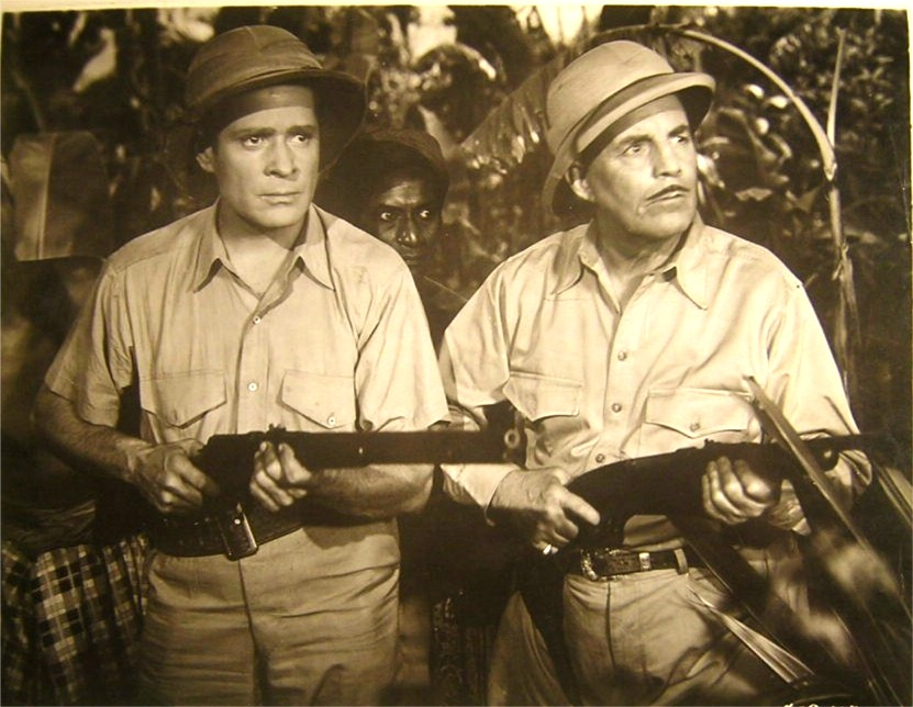 This is a movie still for the film Tiger Fangs, showing stars Duncan Renaldo (left) and Frank Buck (right). Source: Personal collection